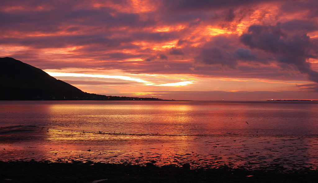 Carlinford Lough early morning